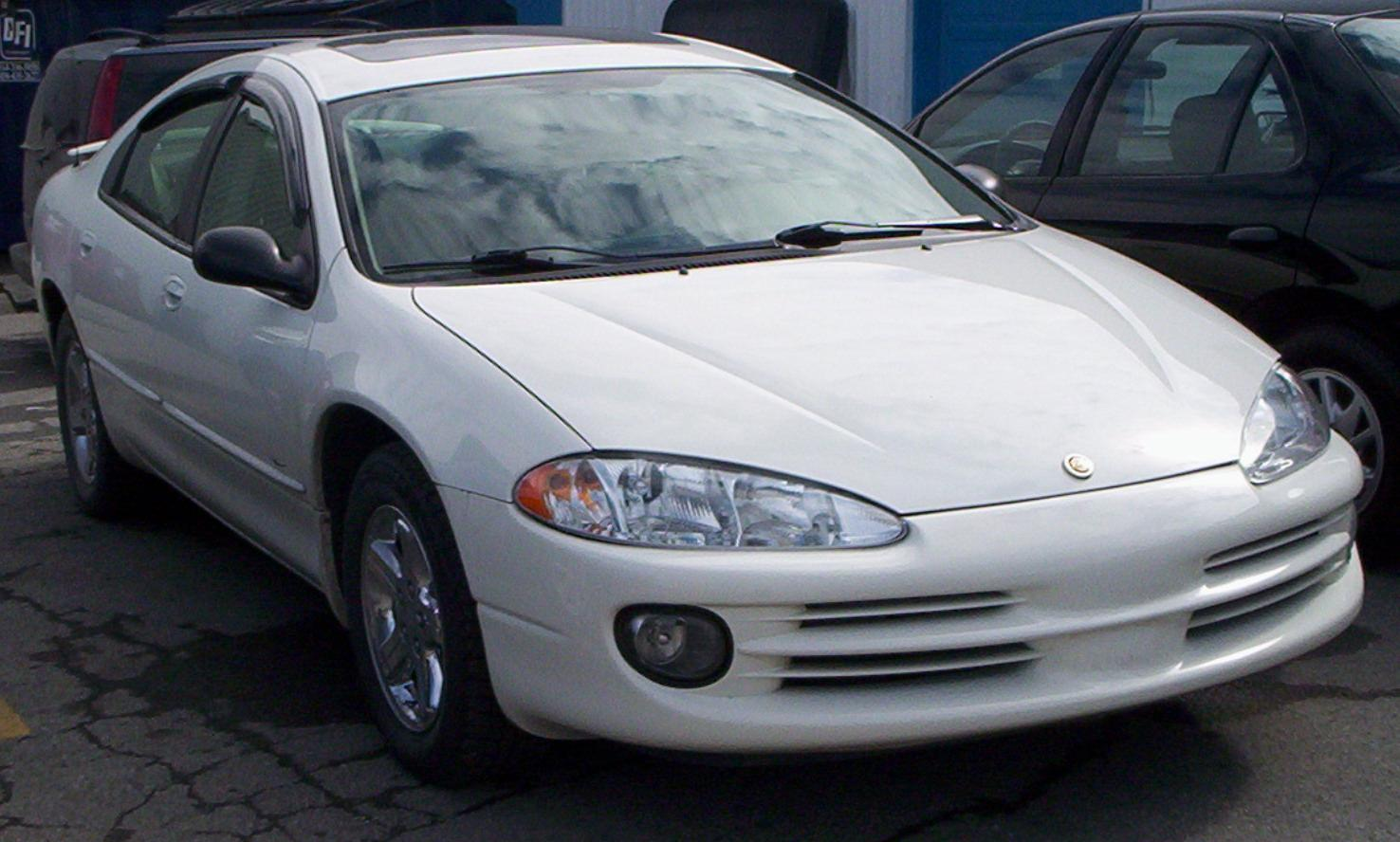 2002-2004 Chrysler Intrepid photographed in Montreal, Quebec, Canada